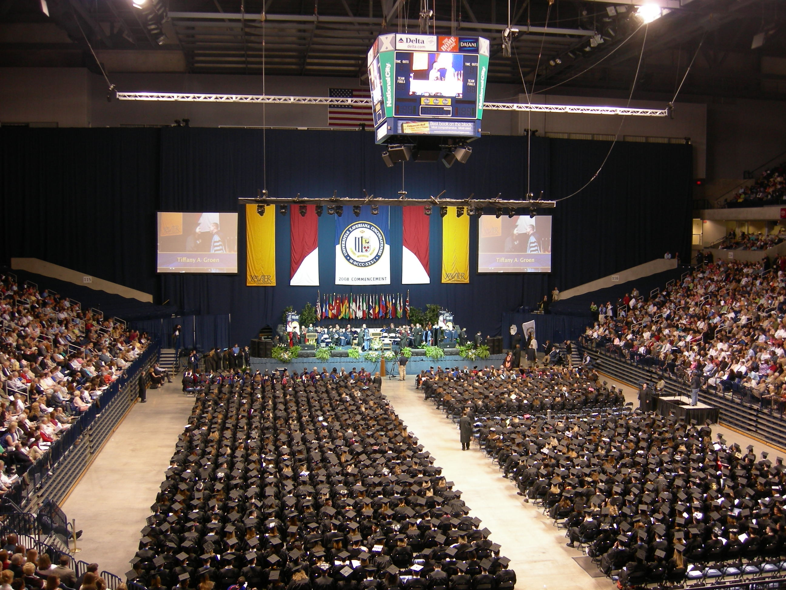 2008 Xavier Commencement